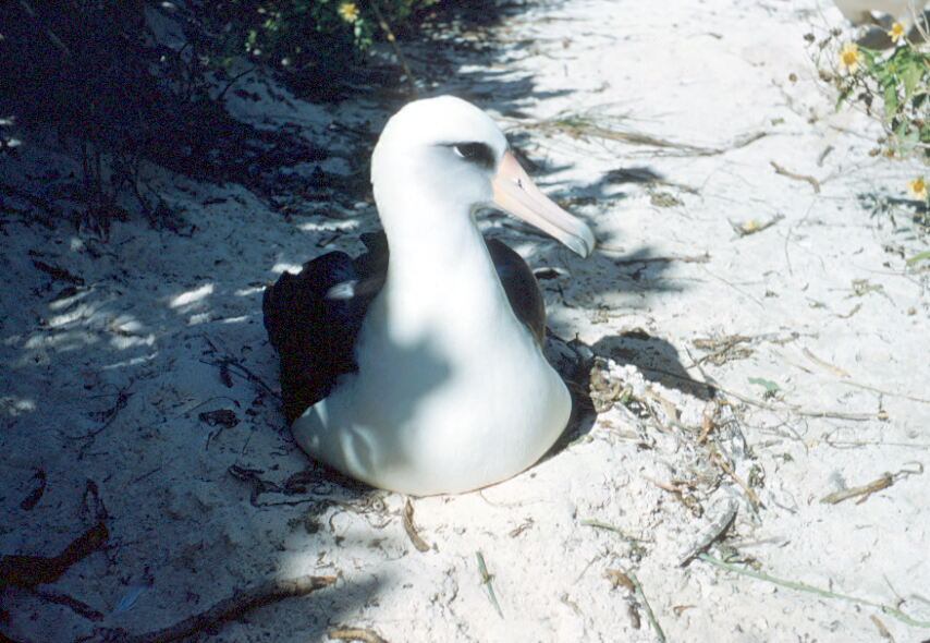 A Laysan Albatross (Phoebastria immutabilis) on nest.